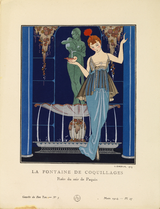 1914 fashion plate illustrating evening gown by Jeanne Paquin Title: "La Fontaine de Coquillages, Robe du soir de Paquin" ("The Shell Fountain, Evening gown by Paquin")